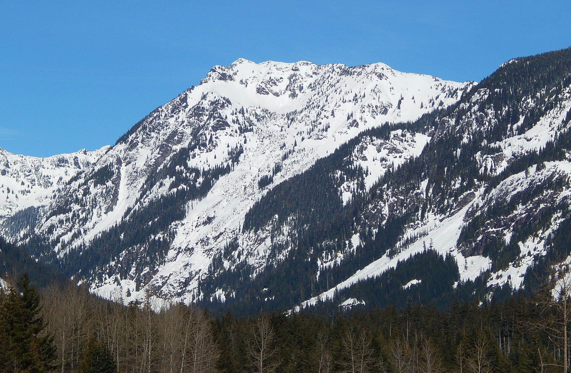 Alta Mountain in the Cascade mountain range, seen from Hyak (Snoqualmie Pass) Washington state.